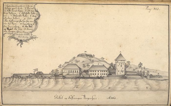 Drawing by J.J. Reichborn of Bergenhus festning, Håkonshallen and Rosenkrantztårnet in Bergen, Norway